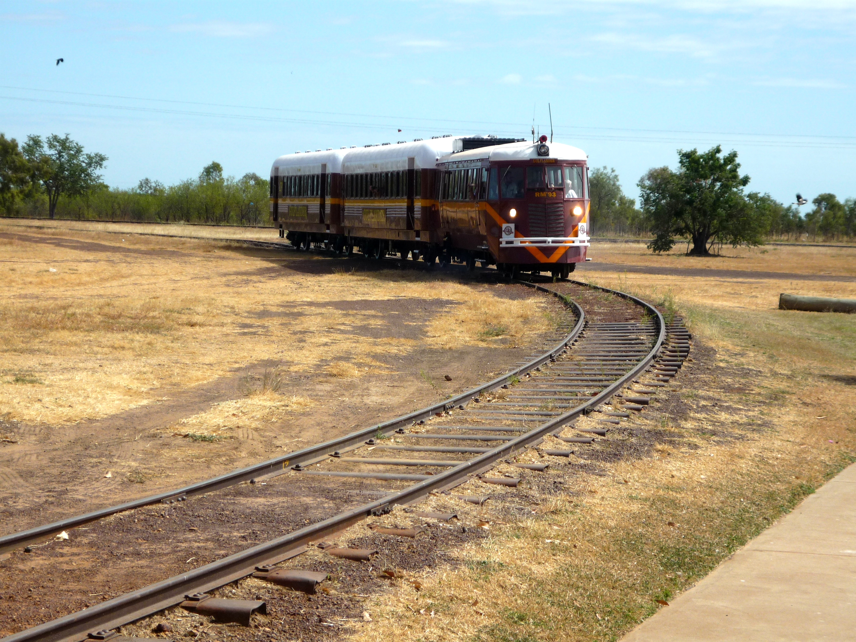 Photo of Gulflander arriving at Normanton, Queensland, Australia.